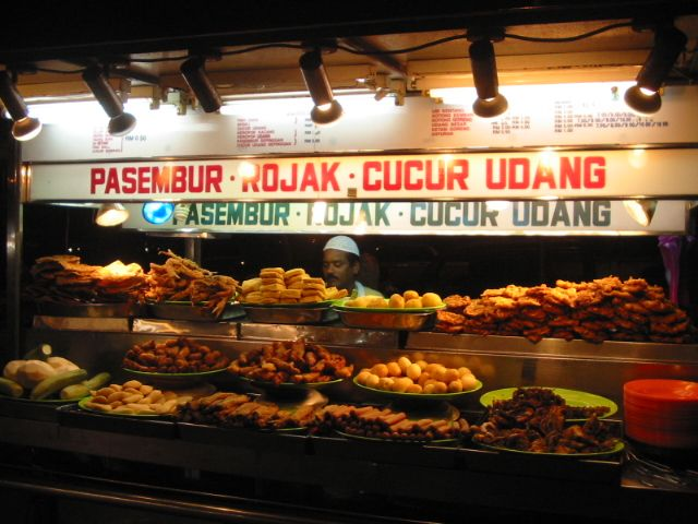 Picture of Pasembur of Penang